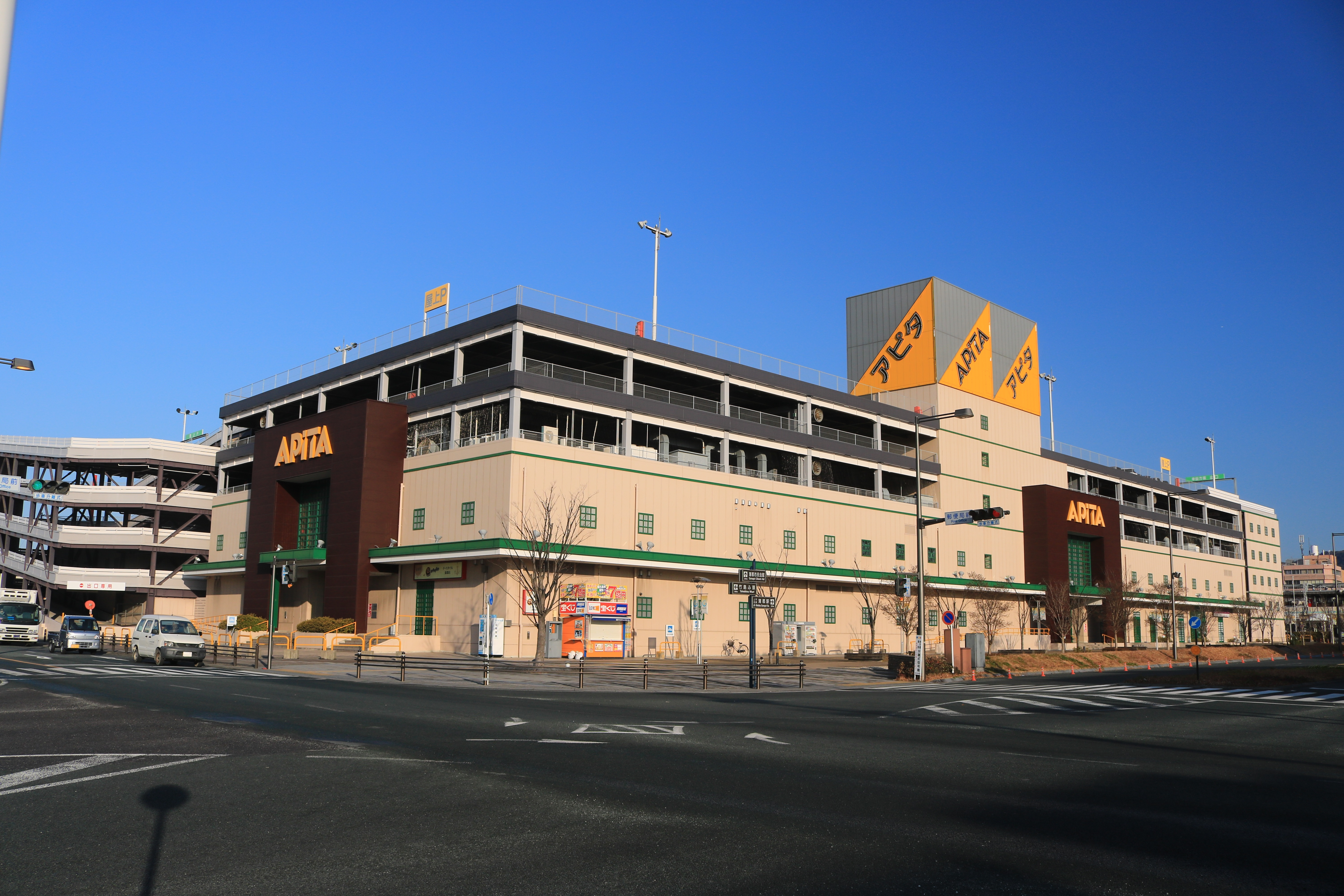 APITA Gamagori in Minatocho, Gamagori, Aichi prefecture, Japan.